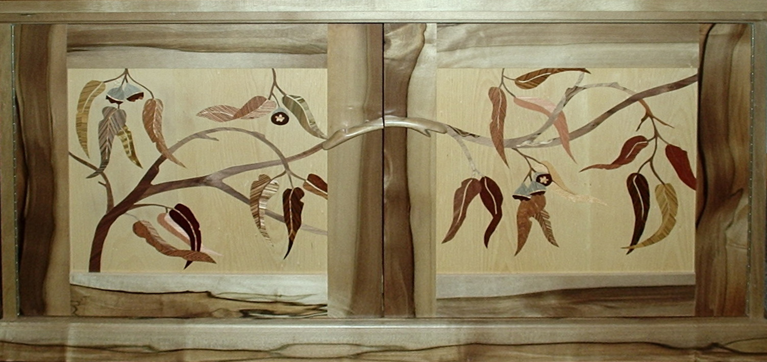 Detail of the front of a marquetry decorated cabinet. Cabinet is made from Tasmanian (Australia) timbers including black-heart-sassafras, huon pine. On display in a forestry/wood craftmanship display at Geeveston, Tasmania, Australia. Photo taken in 2005ish and cropped to this